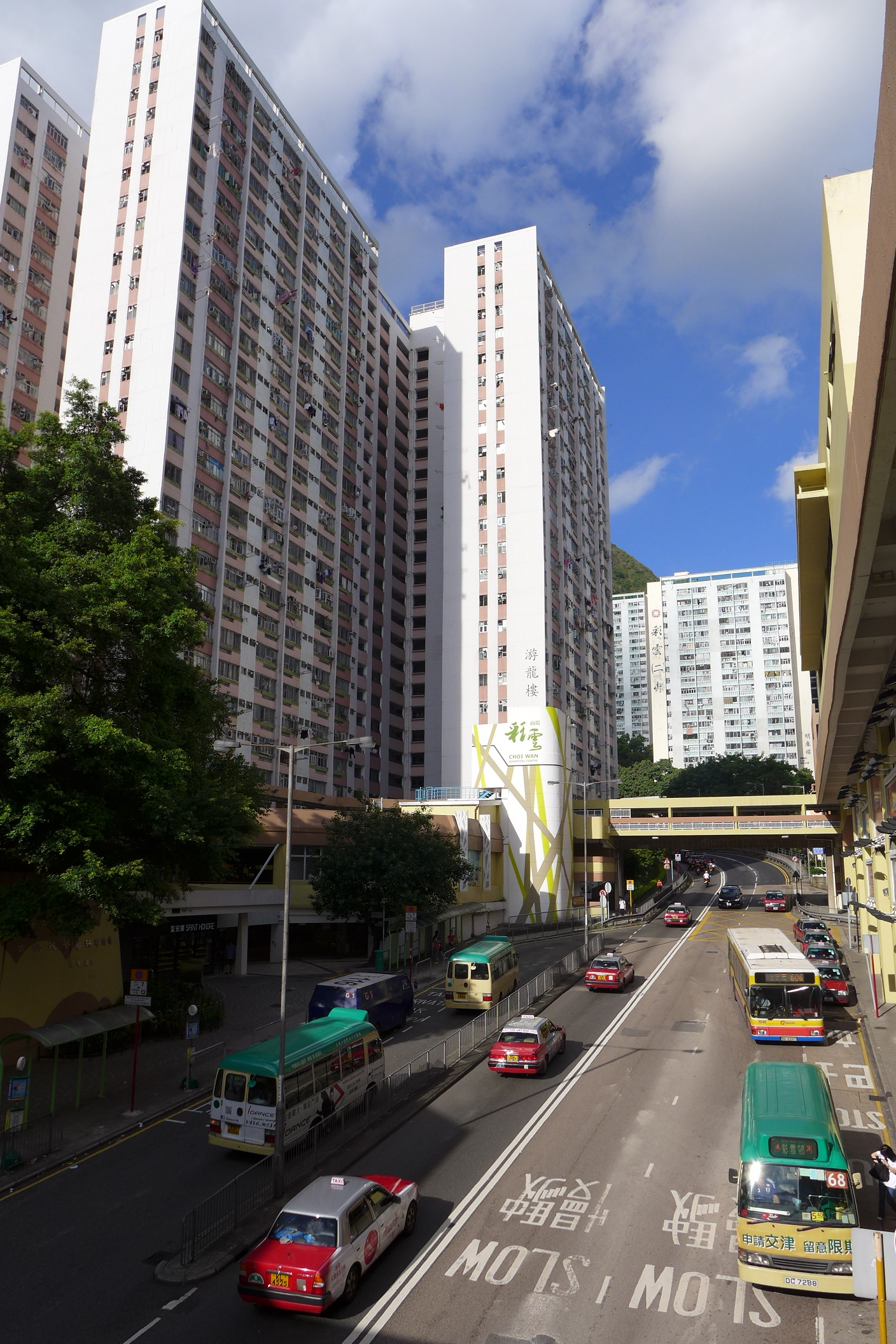 Clear Water Bay Road Near Choi Wan Estate